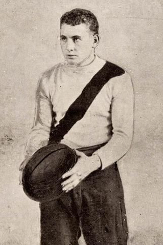 Photograph of Jack Scobie from the 1910 Weekly Times Victorian Footballer Postcard Series